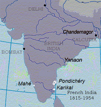 After 1815-16, and until its incorporation into newly-independent India in the early 1950s, French India was limited to five small non-contiguous territories, usually called Comptoirs des Indes by the French. Officially French India was called Établissements français dans l'Inde (French establishments in India).